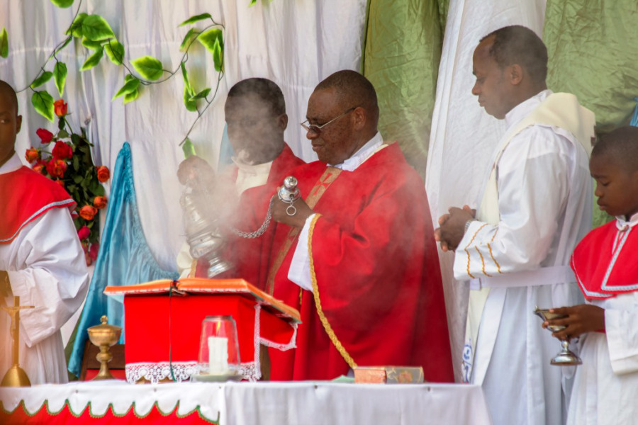 Catholic Mass at Himo, Tanzania 2012